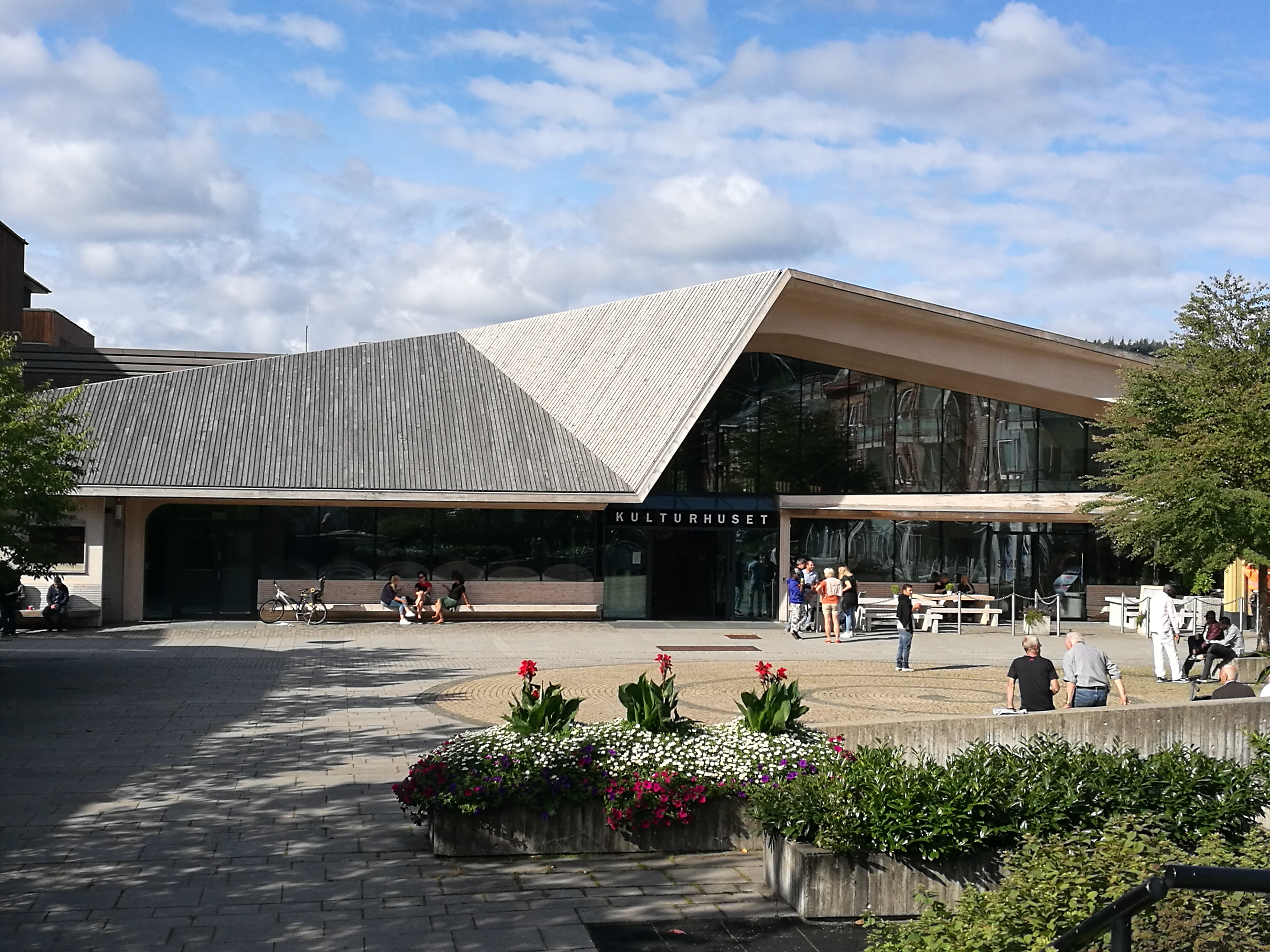 Picture of the facade and main entrance of the Vennesla Library and Culture House